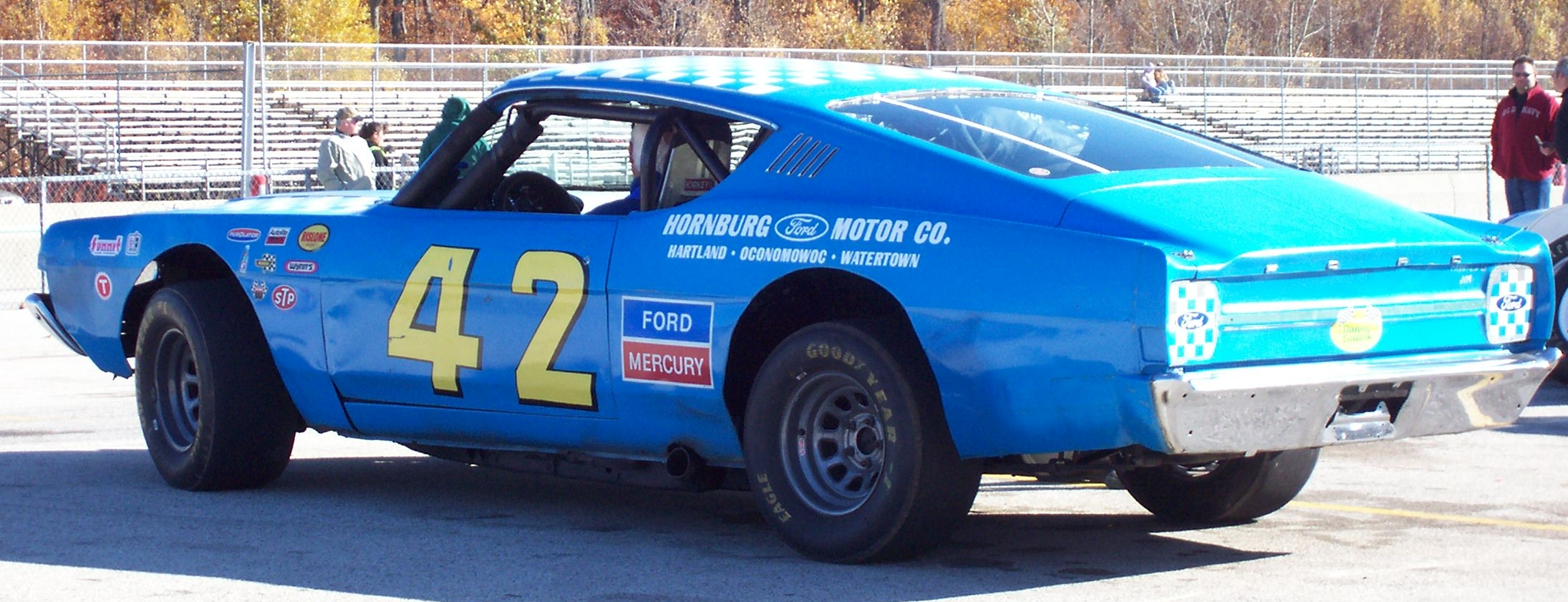 A Dick Trickle 1968 Ford Torino from long before his days in NASCAR. I wonder how many hundred times this car has visited victory lane.